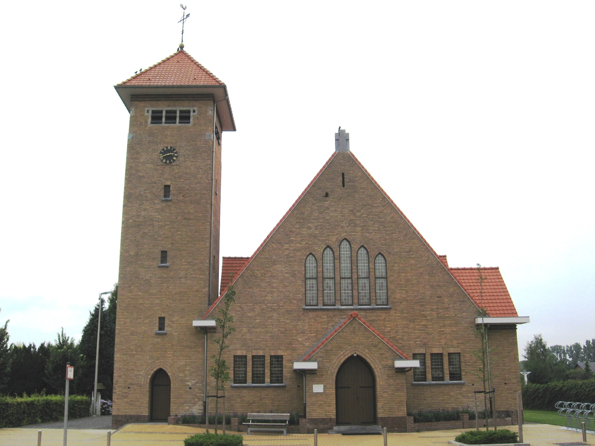 Church of the Sacred Heart in Beverlo (Korspel), Limburg, Belgium